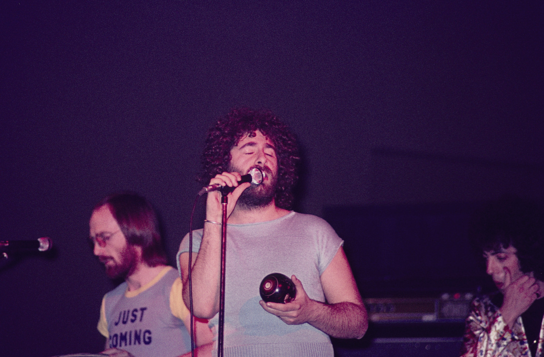 10cc - 6 - April 1976 - Kevin Godley,v.jpg